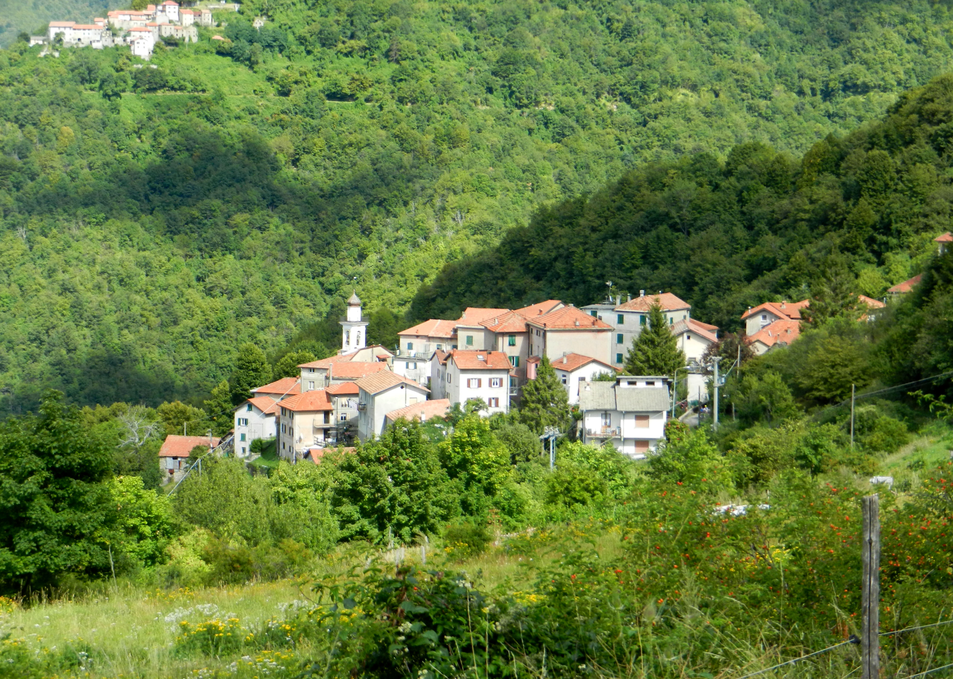 Valbrevenna (province of Genoa, Italy), view of thew village of Carsi